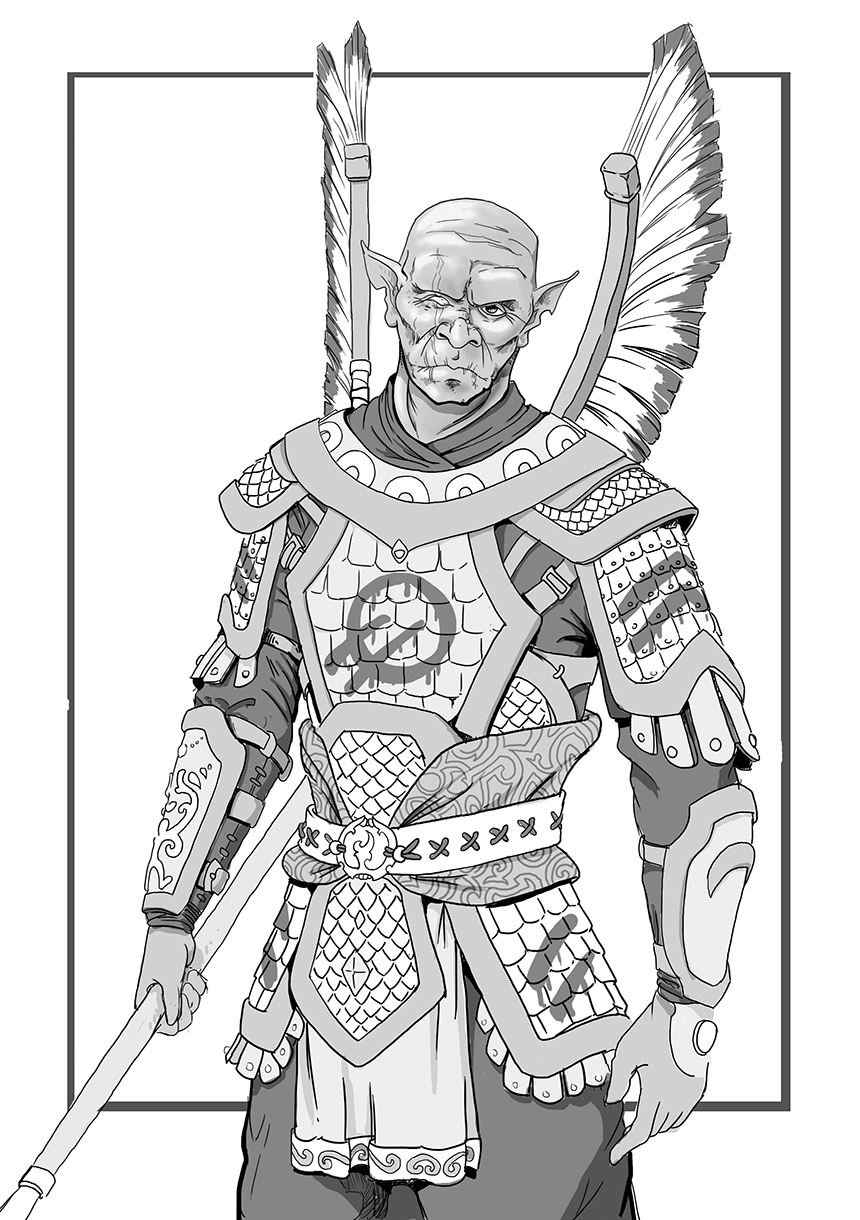 hobgoblins are a larger, stronger, smarter and more menacing race of goblins.